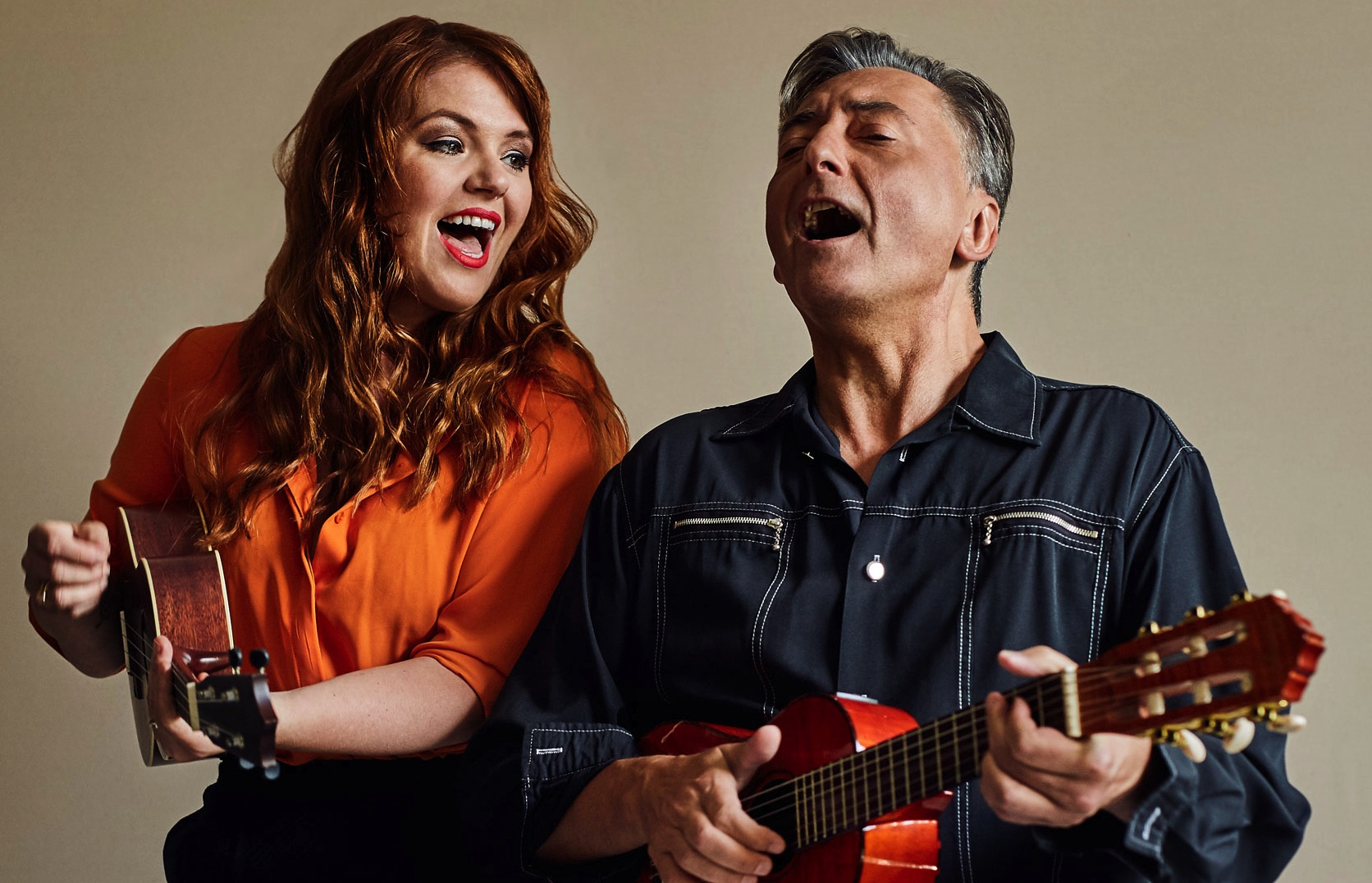 Stieger & Mokesch Duo